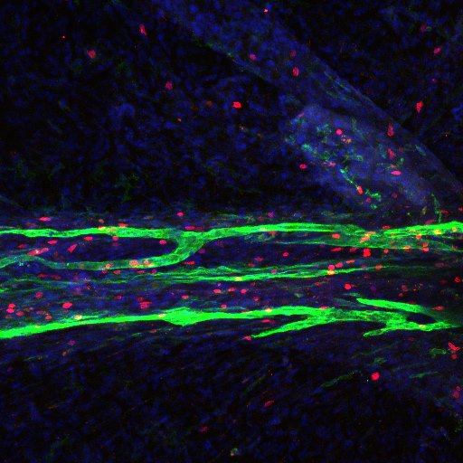 Confocal micrograph of the meningeal lymphatics and trafficking immune cells. Lyve-1 (green), CD3e (red), and DAPI (blue) are shown.